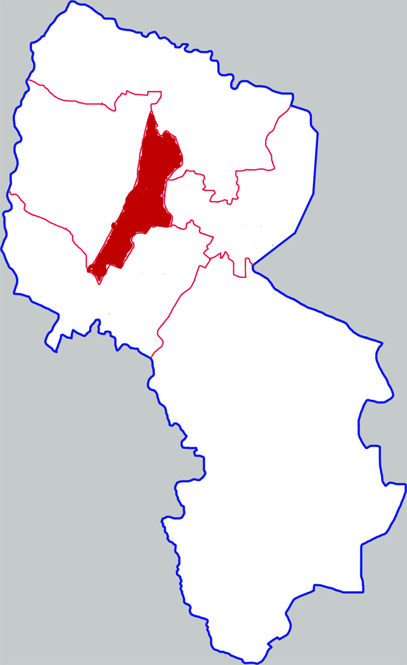 Location of Jinfeng district in Yinchuan city, China